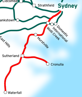 This is a map of the Eastern Suburbs & Illawarra Line in Sydney, Australia, traced on this public domain map. Original edit by NE2